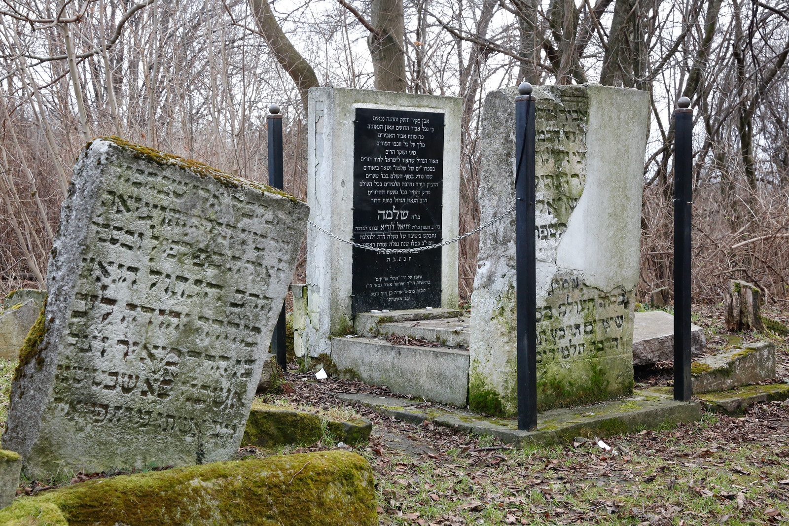 Grave of Rabbi Solomon Luria, Lublin, Poland. Photo taken Jan 2014.